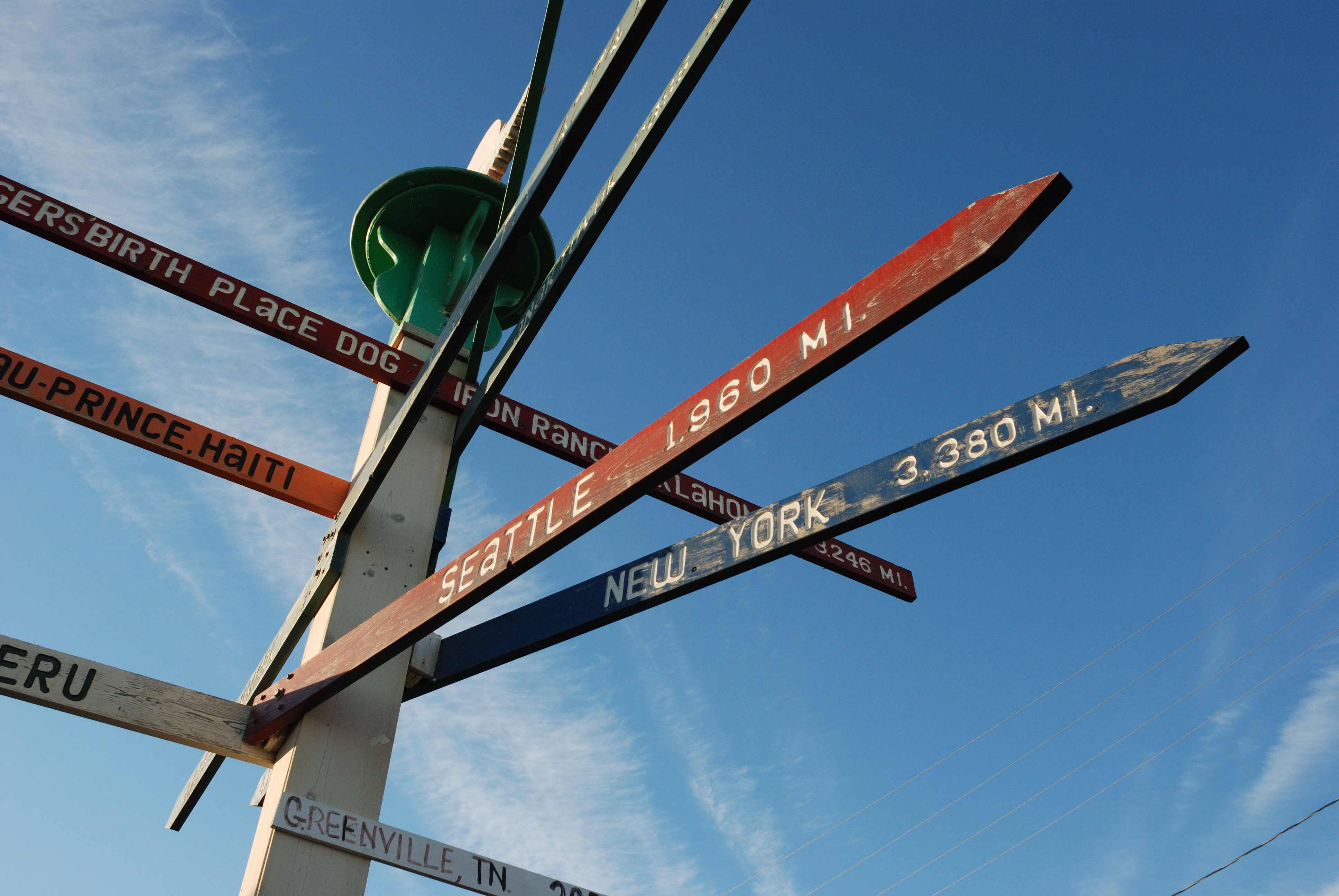 Milepost in Barrow, Alaska